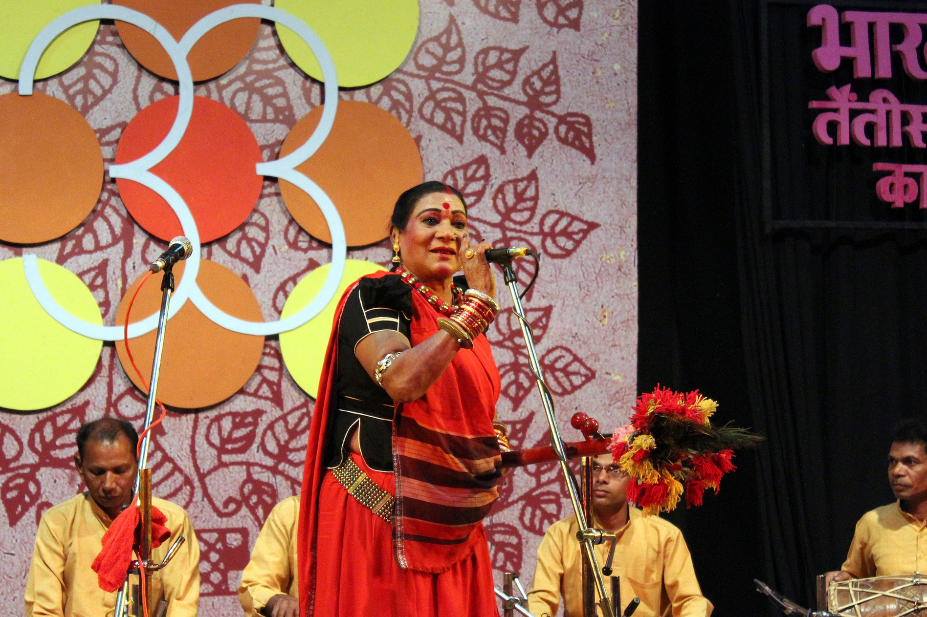 Teejan Bai performing at Bharat Bhawan Bhopal